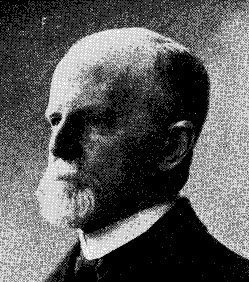 Carl af Petersens (1851-1925), Swedish librarian